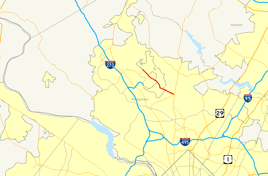 Map of Maryland Route 115